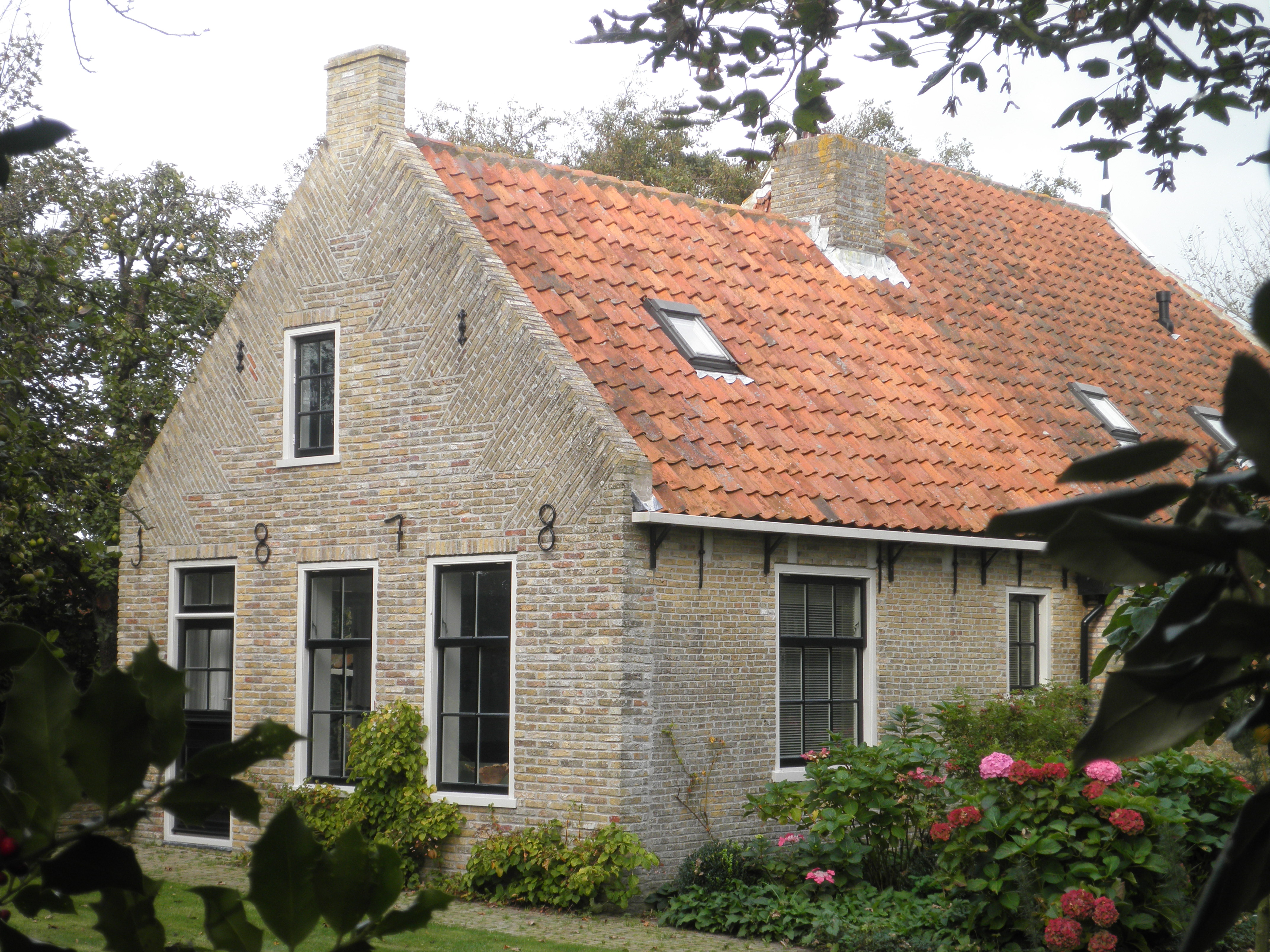 Farm with house on the frontside and barn with washing cages and developed chimneys. Nationally listed heritage. House seems not plastered anymore.